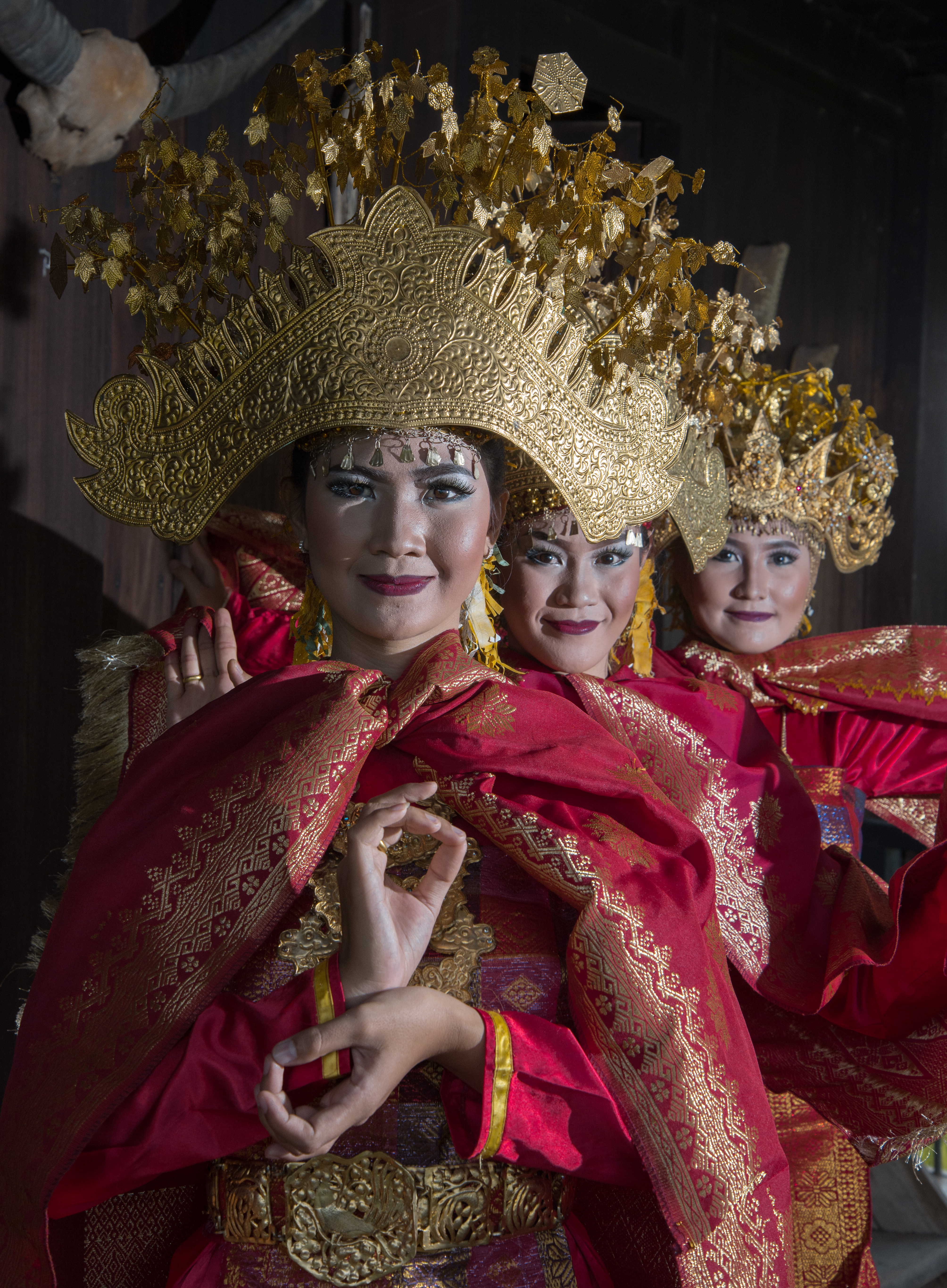 Tari kebagh (Kebagh dance) is a traditional dance that is famous in the district of Besemah, Pagaralam, Indonesia.